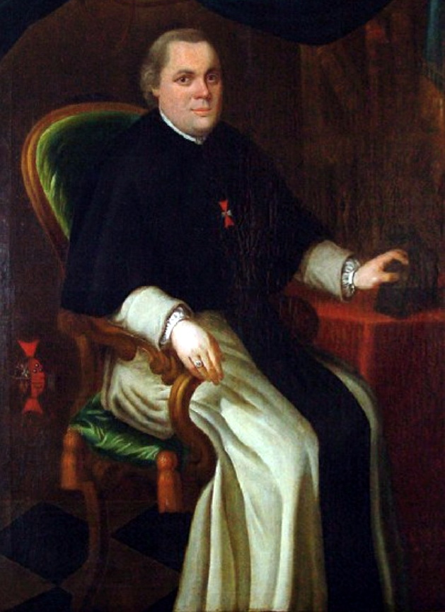 Portrait of prior Joseph Leurs of the Croziers Monastery in Maastricht (1778-96). In 1804 he became prior of the Croziers Monastery in Sint Agatha (Cuijk). The portrait was painted in 1781 by C. Delin, probably the same as N.J. Delin, a minor Dutch portrait painter. Leurs was probably 34 years old when this portrait was painted. The portrait is part of the historical collection of Erfgoedcentrum Nederlands Kloosterleven in Sint Agatha, the Netherlands.